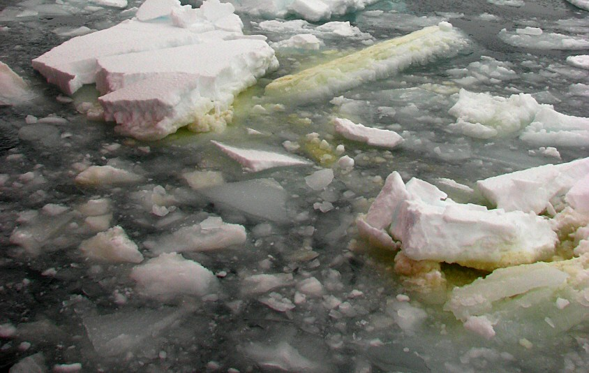 Broken pack ice with cryopelagic antarctic diatom algae covering the underwater surface of ice; 2 December 2009, Ross Sea